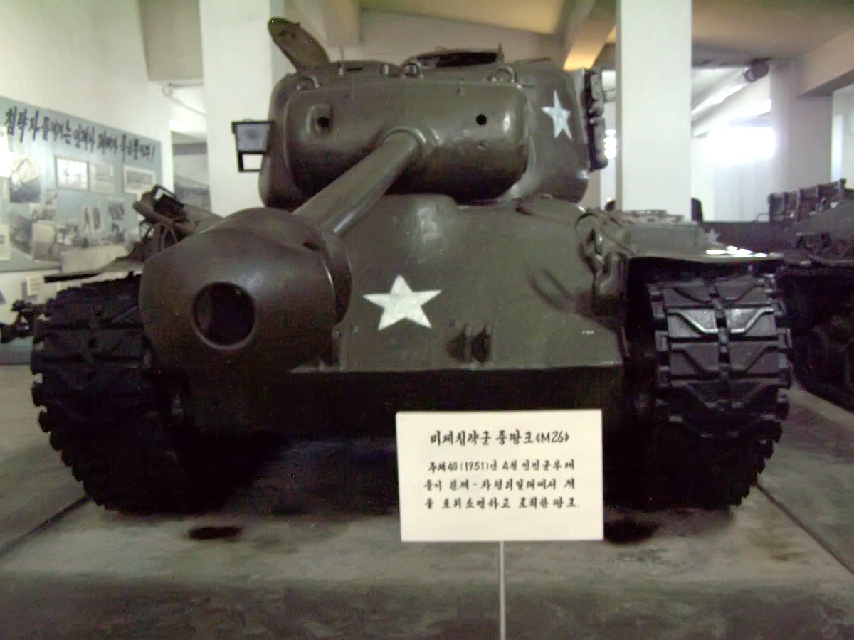 U.S. Army tank captured by NKPA during Korean War, displayed in Pyongyang